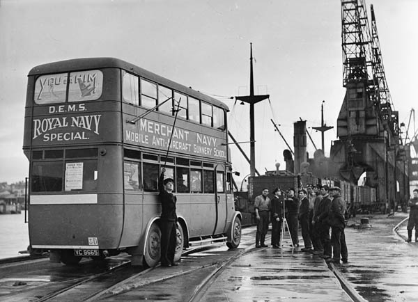 The picture shows merchant seamen receiving instruction in the art of anti-aircraft gunnery through the services of a mobile DEMS (Defensively Equipped Merchant Ships) course. In this image, the seamen are being trained to track and ‘lead’ an approaching enemy aircraft through the gun sight of a close range anti-aircraft weapon. The 'target' is a small model aircraft suspended from the side of the converted double-decker bus. The port is Immingham, East Yorkshire, now North East Lincolnshire[1] Reproduction ID: AD13340 Maker: Unknown Date: 1940s This photograph is featured in Arctic Convoys, a new photographic exhibition looking at the experiences of those who served on the Arctic Convoys. It's on at the National Maritime Museum until 4 November 2012